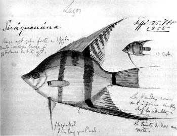 Drawing by Jacques Burkhardt of the angelfish Pterophyllum scalare, collected during the Thayer Expedition, 1866 (This is dubious - see the talk page.)